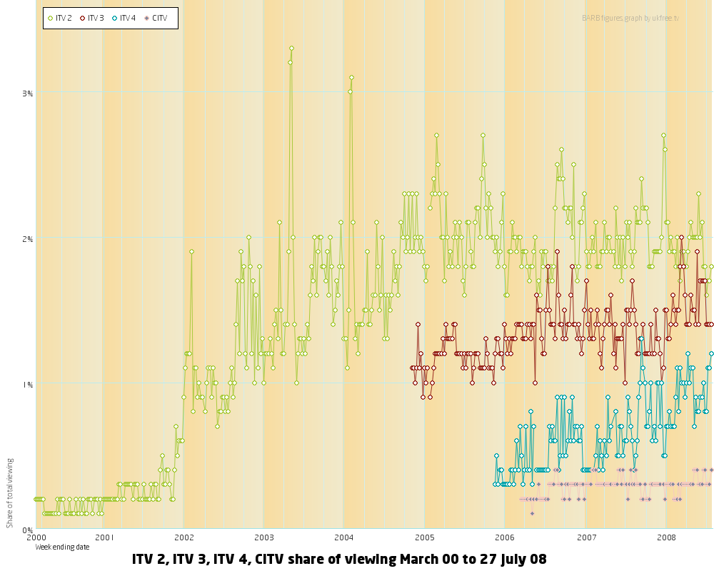 ITV digital channels viewing share. ITV 2, ITV 3, ITV 1, CITV share of viewing March 2000 to 27 July 2008.